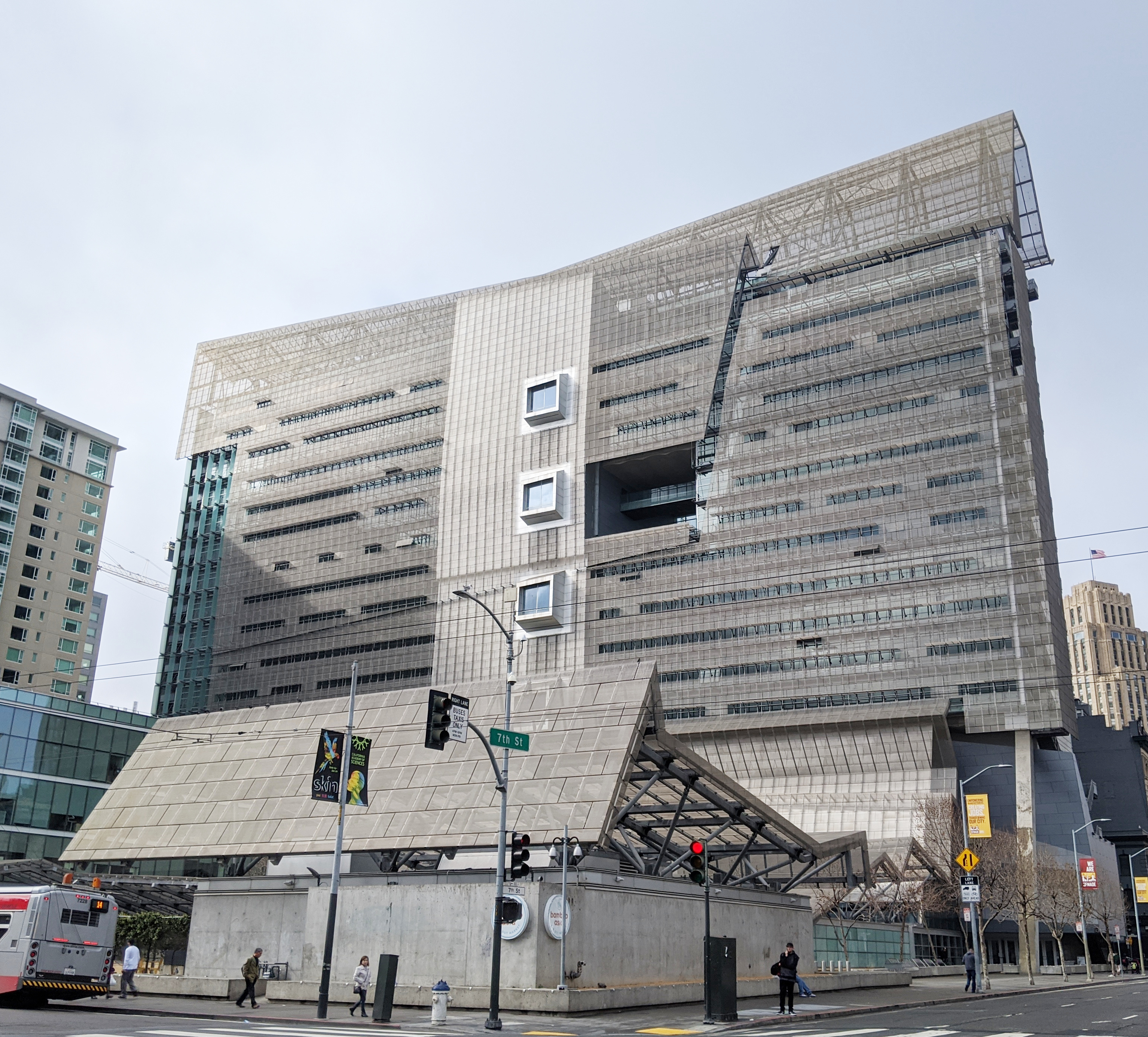 United States Federal Building in San Francisco, California, seen from the intersection of Mission Street and 7th Street (main building, with part of annex visible on the left)